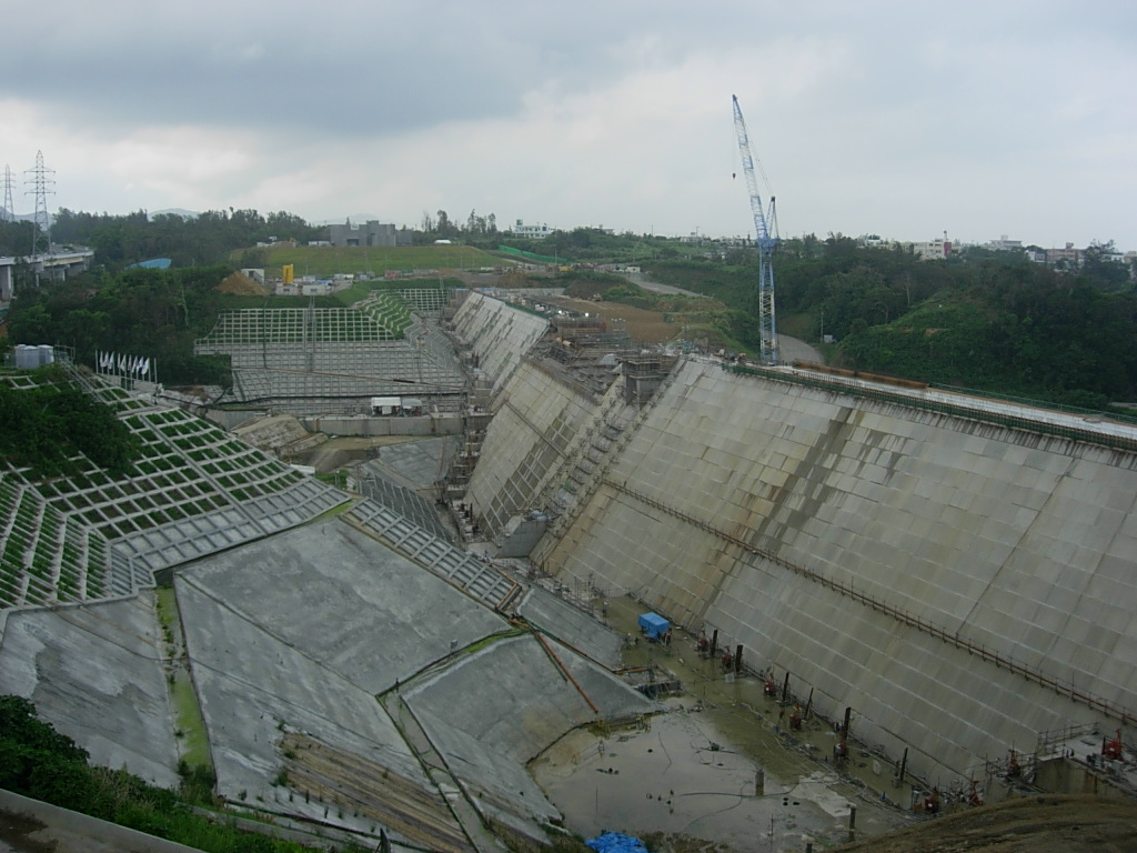 Upstream side of Okukubi Dam in July 2011, during construction.